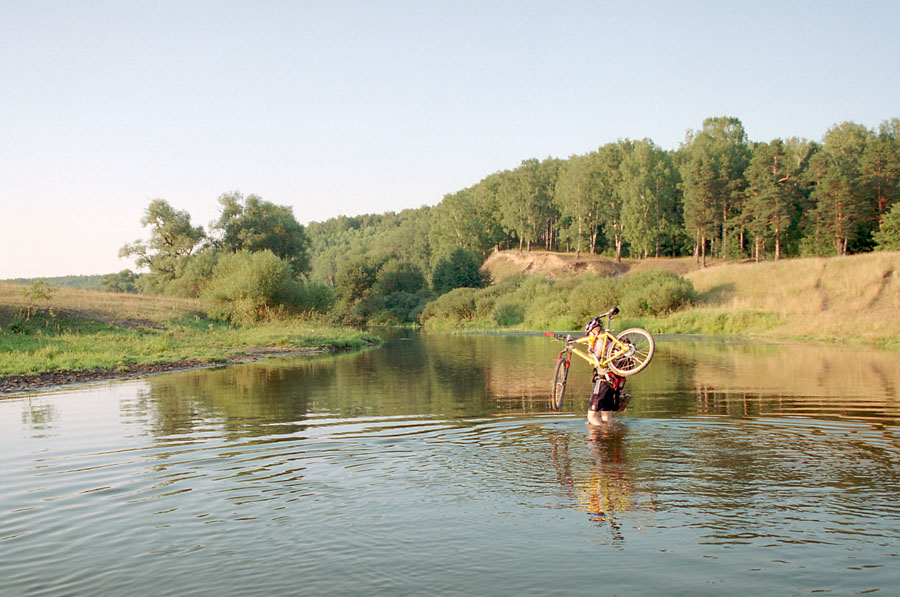 Koloksha River, Vladimir Oblast, Russia, 2002